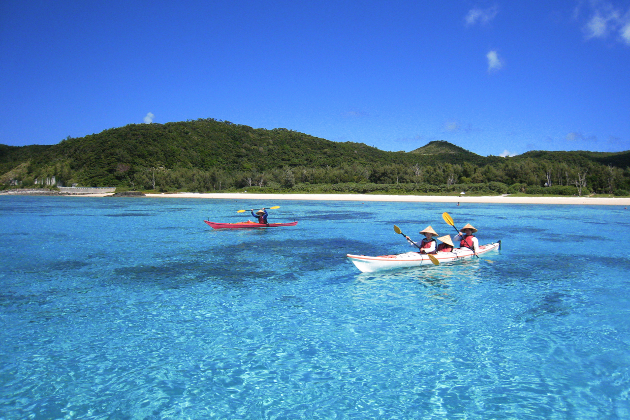 Sea kayakers on the clear waters of Zamami, Okinawa, Japan